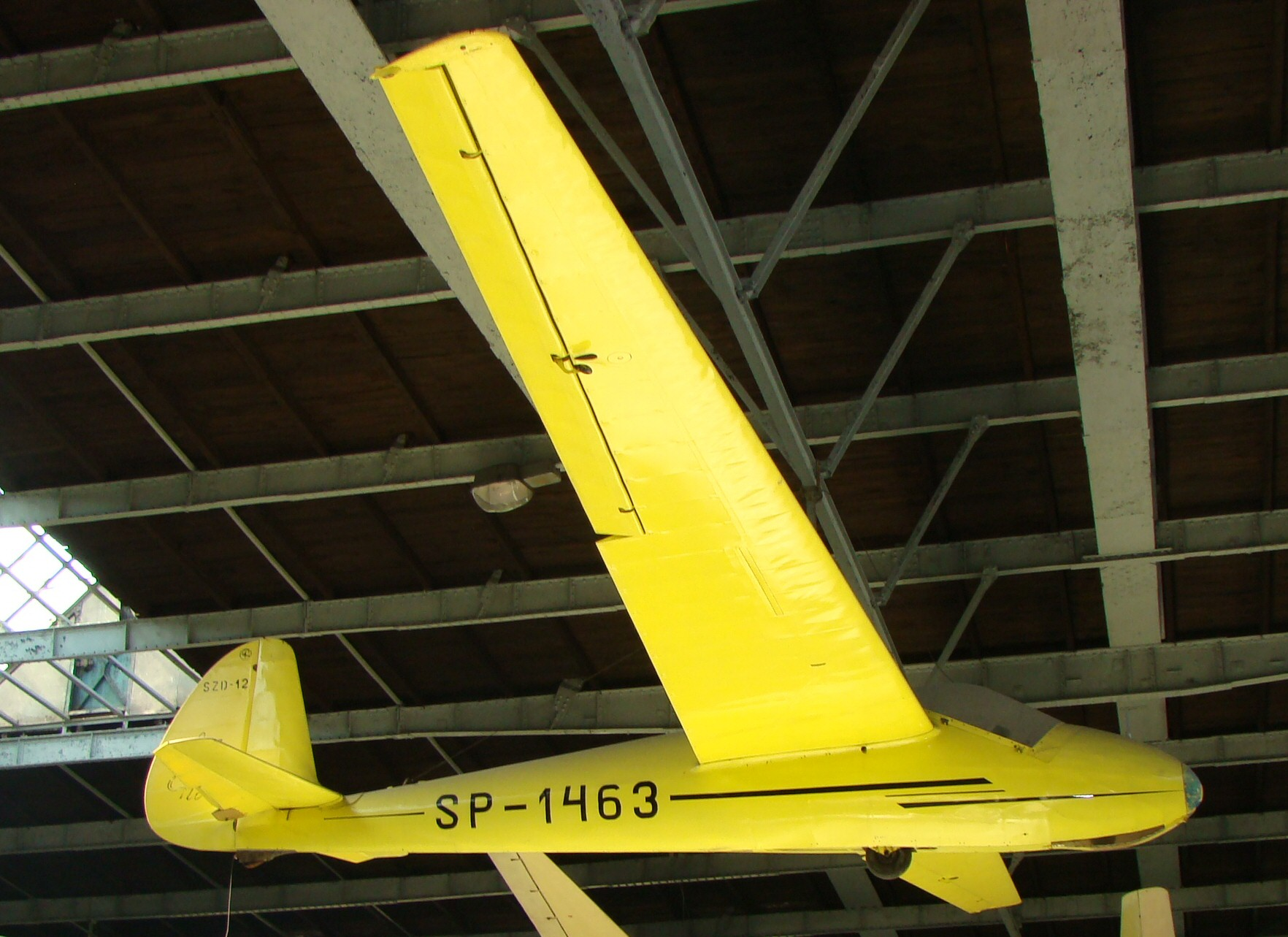 Polish glider SZD-12 Mucha 100 (SP-1463) at the Polish Aviation Museum in Kraków.